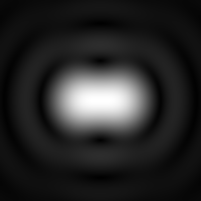 Airy disks of two point light-sources seen through a round aperture. The distance of the two sources matches Sparrow's resolution limit d = 0.947 λ sin ⁡ α {\displaystyle d={\frac {0.947\,\lambda }{\sin \alpha } The brightness of the color shows the square-root of the intensity, since the patterns could hardly be seen at a linear scale.